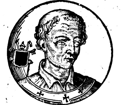 John IX, drawn extracted by Bartolomeo Sacchi said Platina, Vite De' Pontefici, edited by di Onofrio Panvinio, per i tipografi Turrini, e Brigonci, Venice 1663